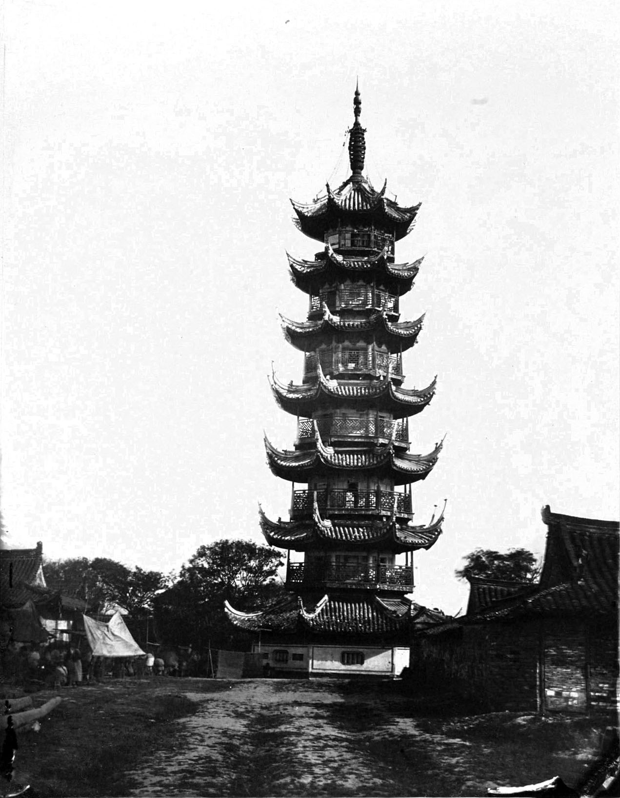 Photograph in From Afong, Photographer.